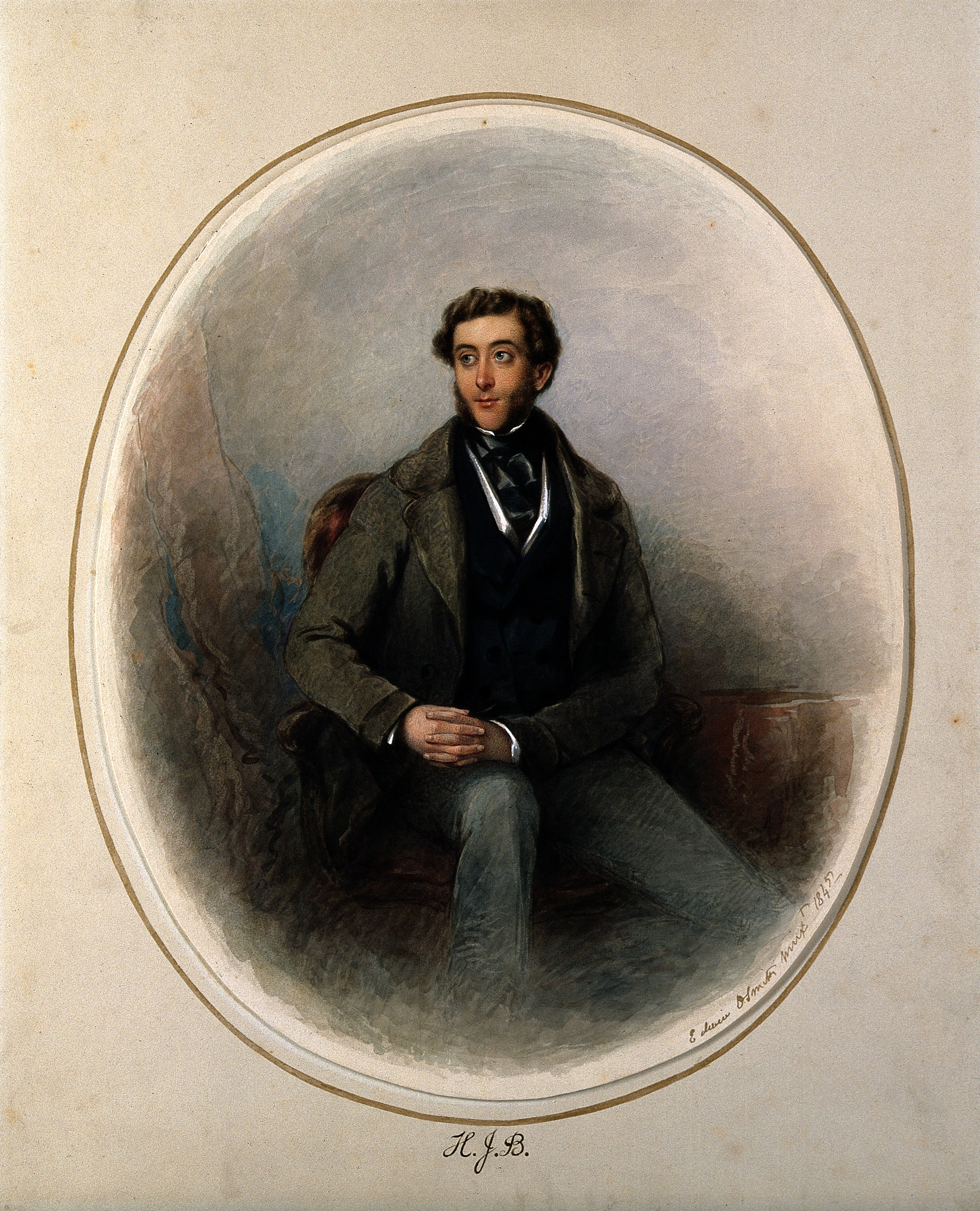 Henry Joseph Bradfield. Watercolour painting by E. D. Smith, 1845. Iconographic Collections Keywords: portrait prints; bradfield, henry joseph, 1805-; Henry Joseph Bradfield; E. D. Smith